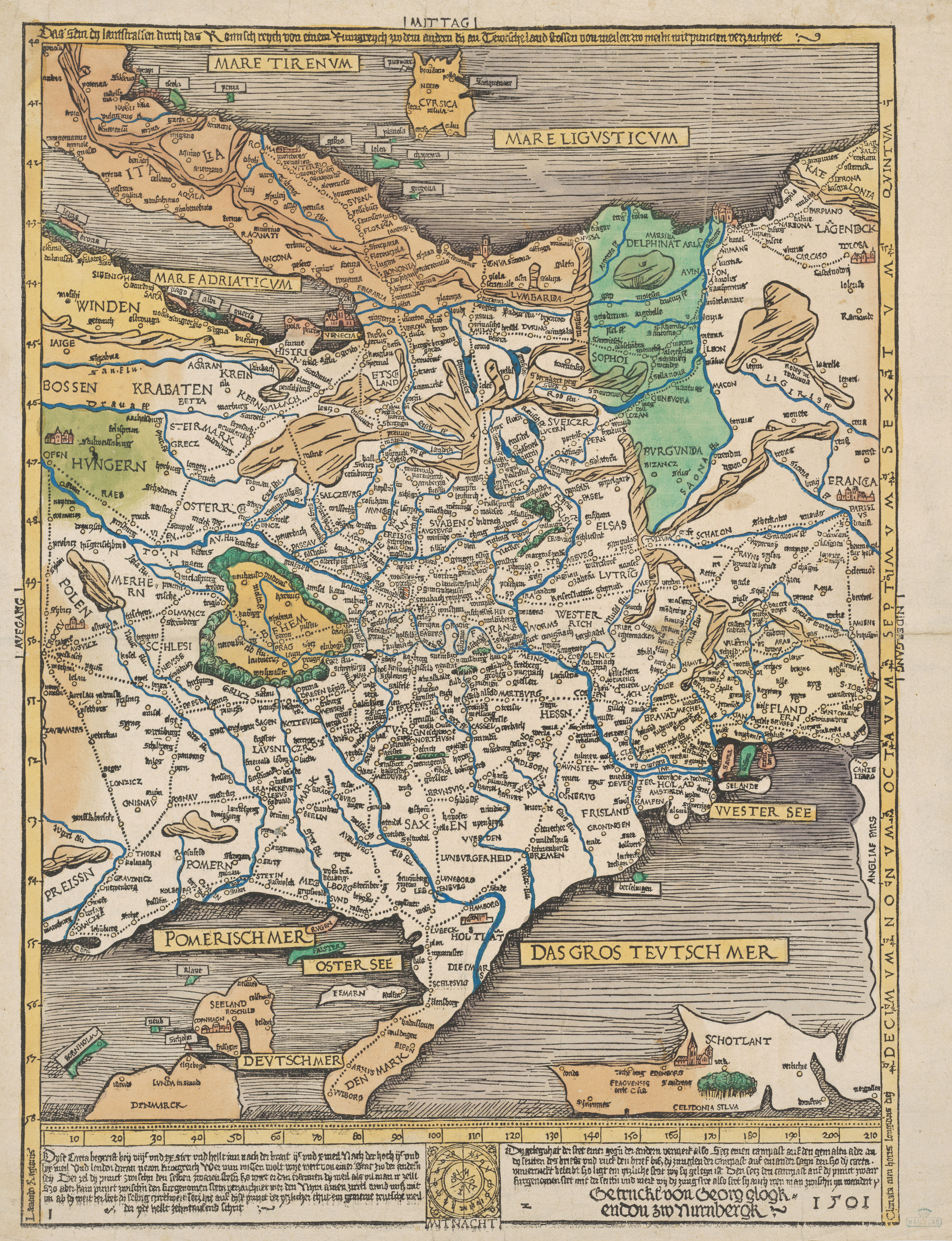 Map of trade routes in central Europe. Nuremberg 1501.